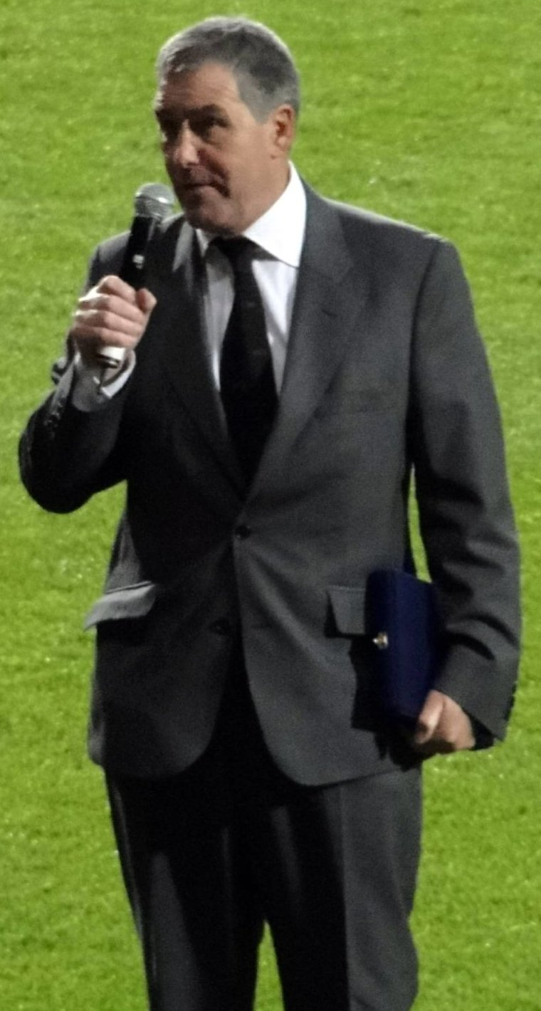 Tony Carr addressing the crowd at half-time during his testimonial match, Upton Park, London, 5/5/10